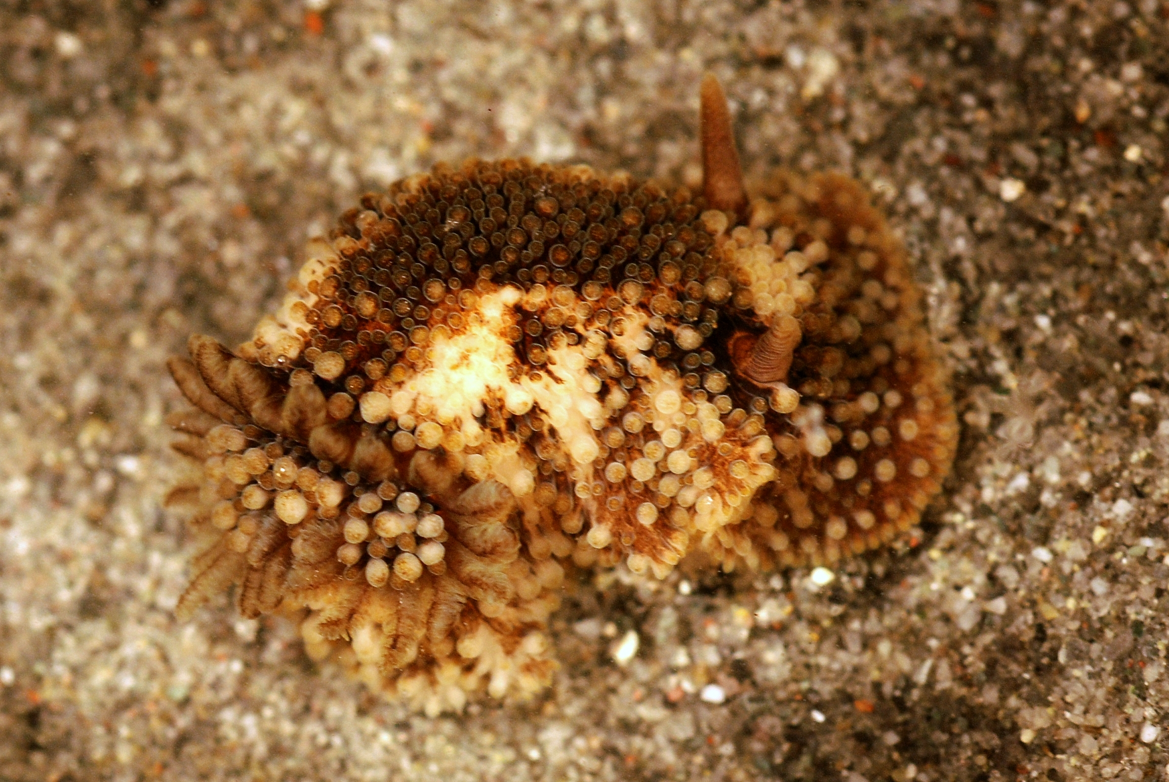 With Ken-ichi and Nate